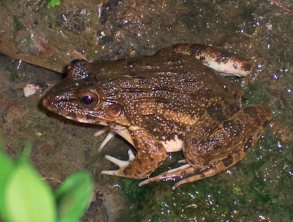 Fejervarya cancrivora, from Darmaga, Bogor, West Java